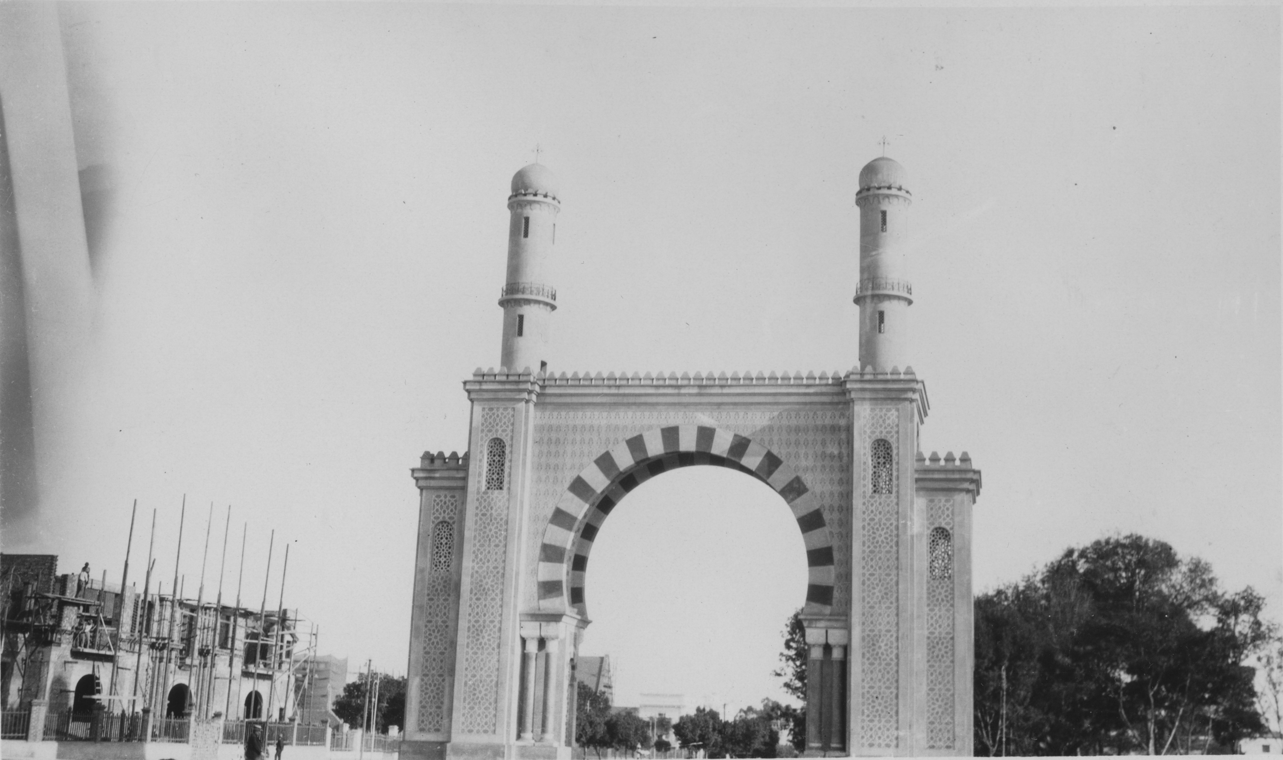 Spanish arch at the Parque de la Amistad in Lima, Peru.